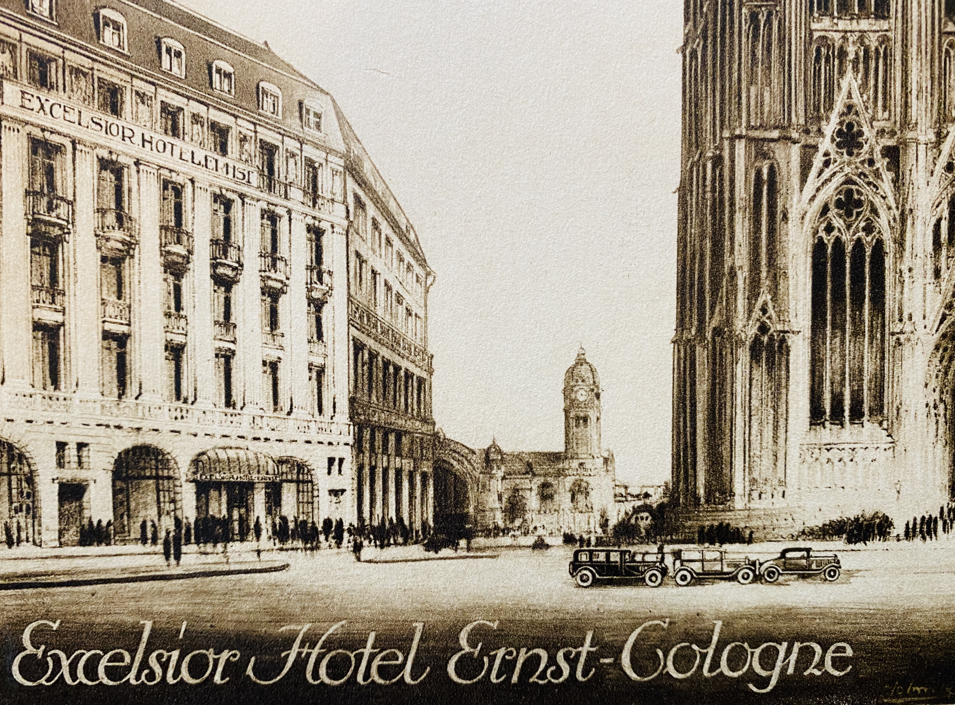 From an original brochure